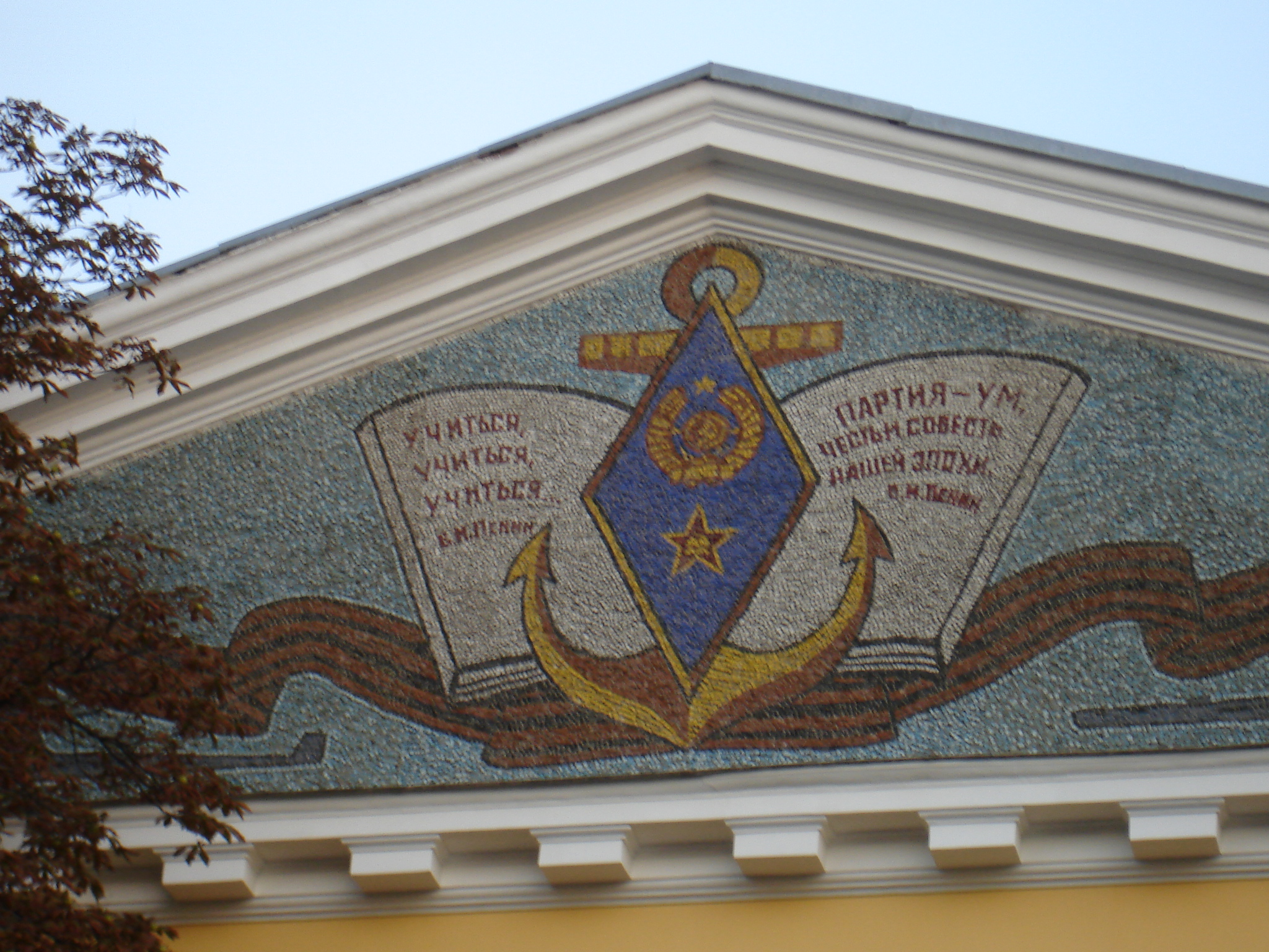 Mosaic on building one of NaUKMA